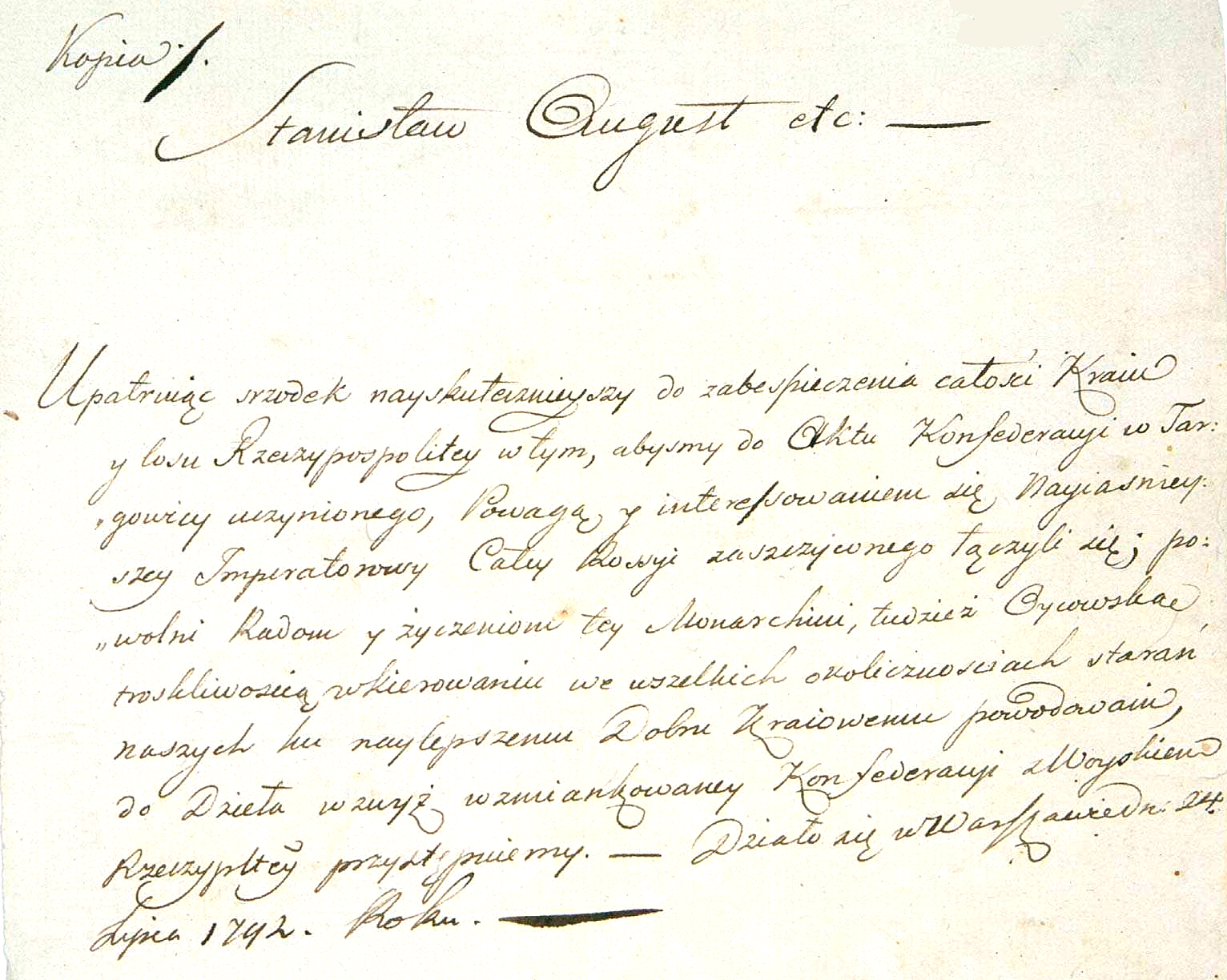 Access of Stanisław August Poniatowski in to targowicka confederation July 24 1792